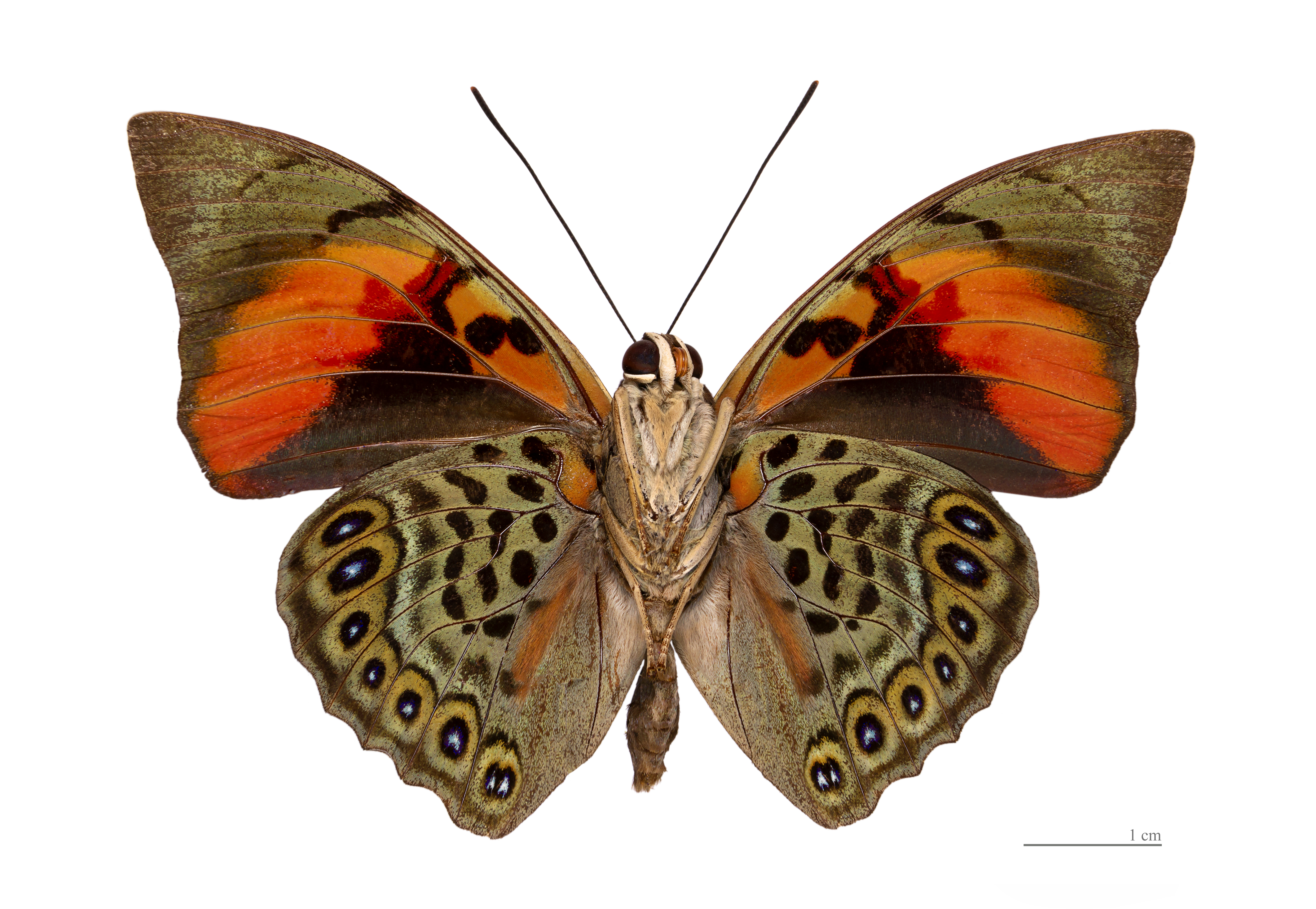 ♂ - △ Ventral side Locality : Cacao, Crique Baguot, French Guiana.